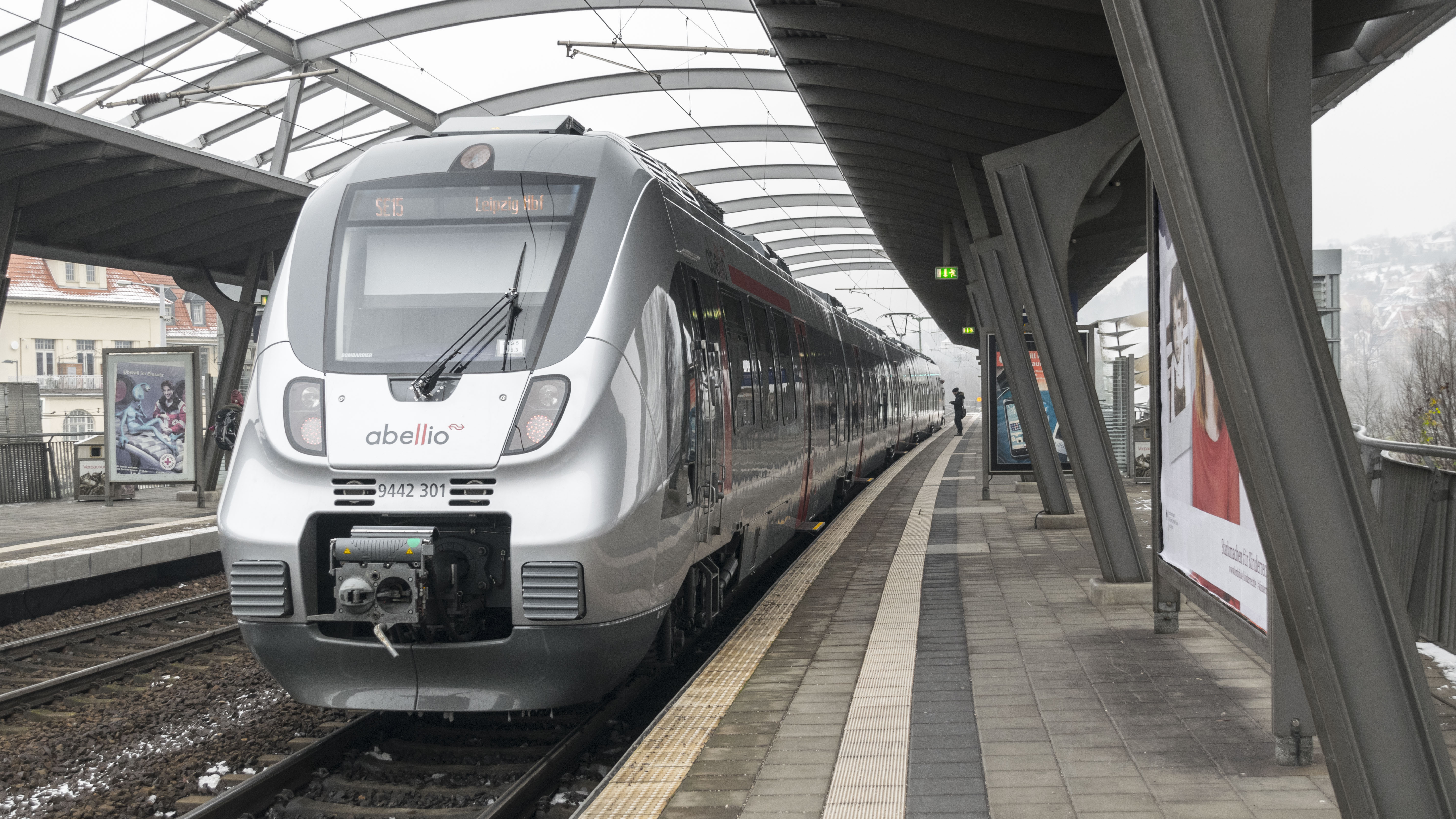 Bombardier Talent 2 of Abellio on its way to Leipzig Central Station at Jena Paradies station